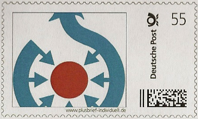 Digital stamp of Deutschen Post AG with a logo of Wikimedia Commons ( Privately designed and funded.